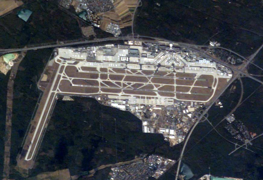 Frankfurt International Airport as seen from Low Earth orbit. Image courtesy of Earth Sciences and Image Analysis Laboratory, NASA Johnson Space Center. [1]. Taken from an altitude of 383 km (207 nautical miles). Crop of an image from the series ISS006-E-52451 through ISS006-E-52454.